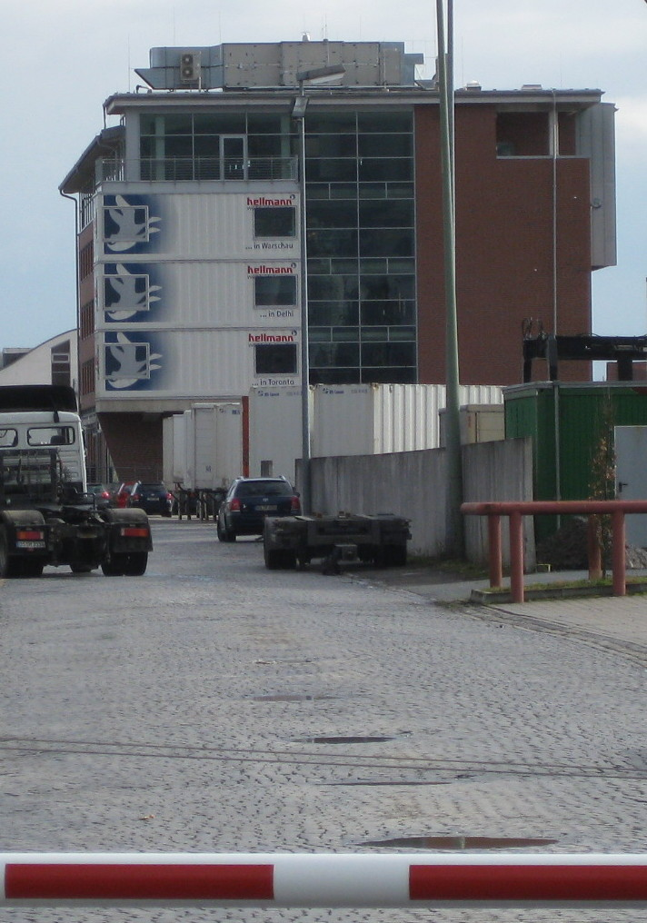 Former Warehouse (Speicher III) in the habour of Osnabrück, Germany. Built in 1934, office building of Hellmann Worldwide Logistics since 2008